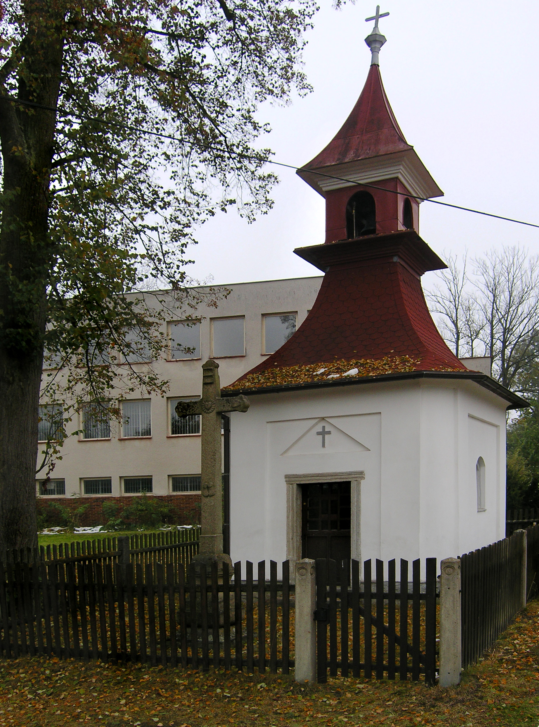 Chapel in Komorovice village, Czech Republic